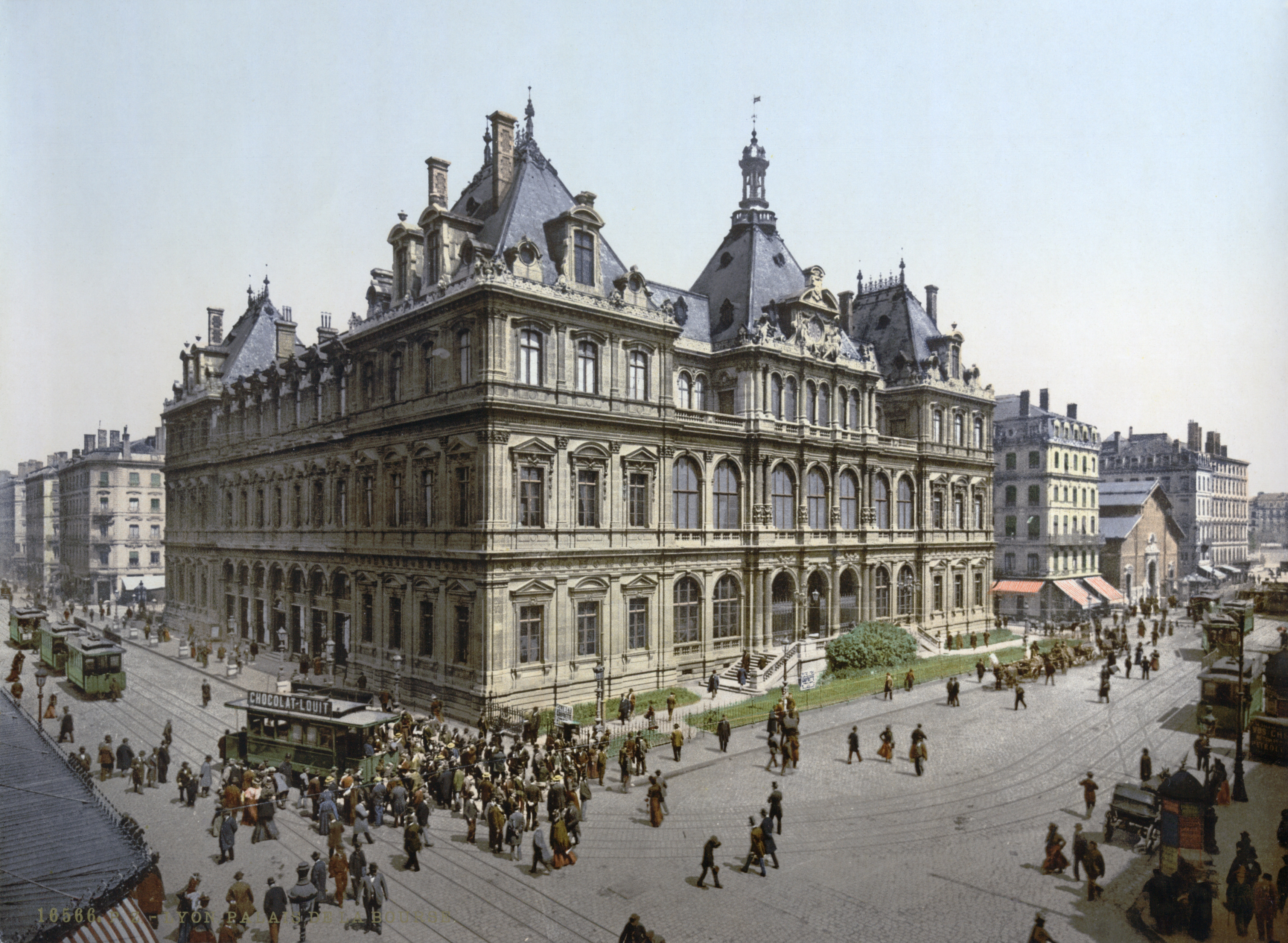 The Bourse, Lyons, France